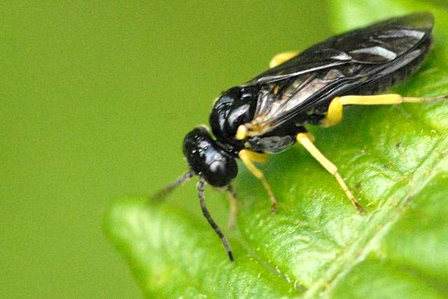 Aneugmenus padi from Commanster, Belgian High Ardennes .